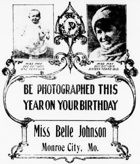 Advertisement for the studio of American photographer Belle Johnson (1864–1945)